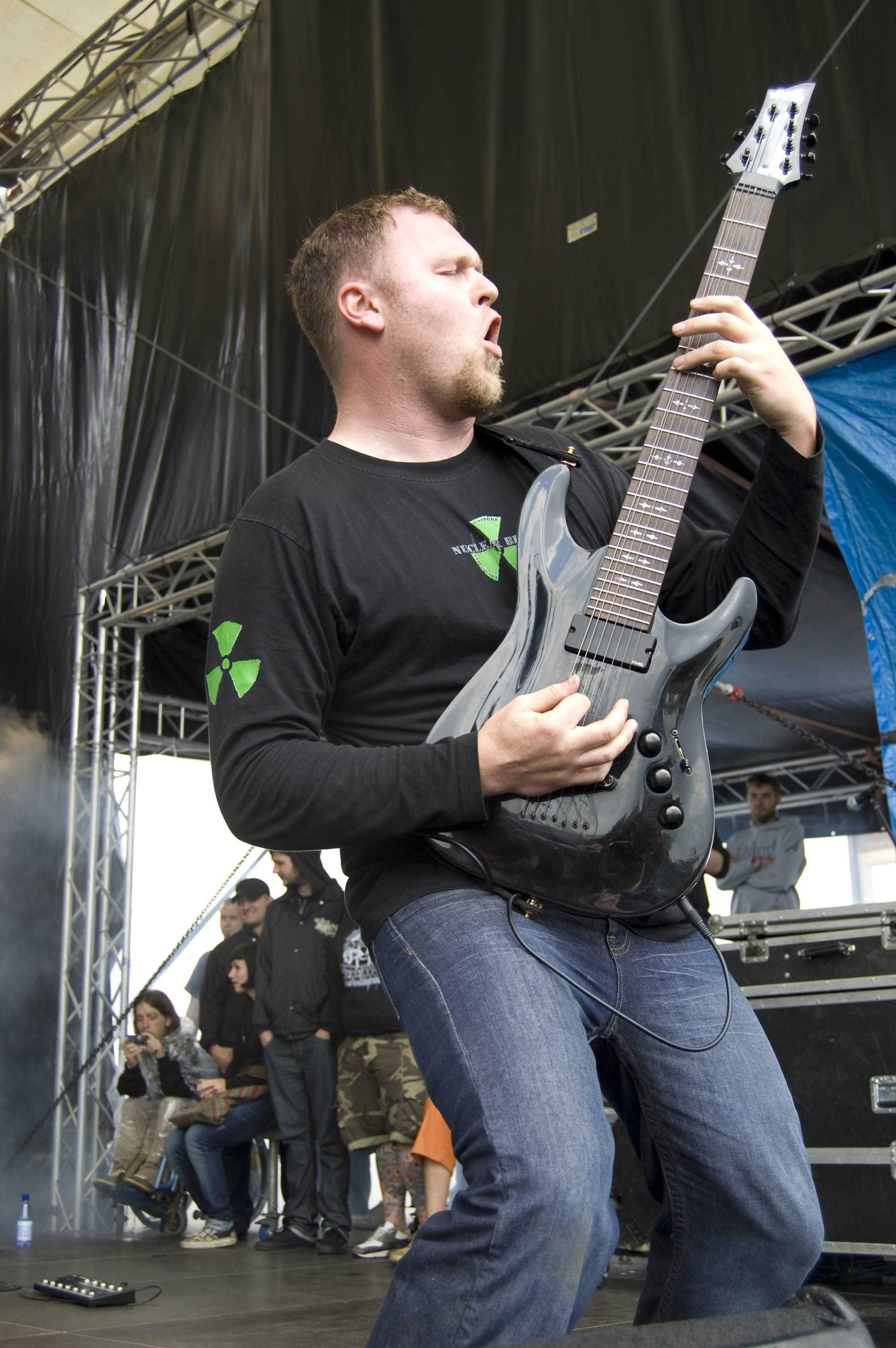 Ben Orum from All Shall Perish live at a concert in 2008.